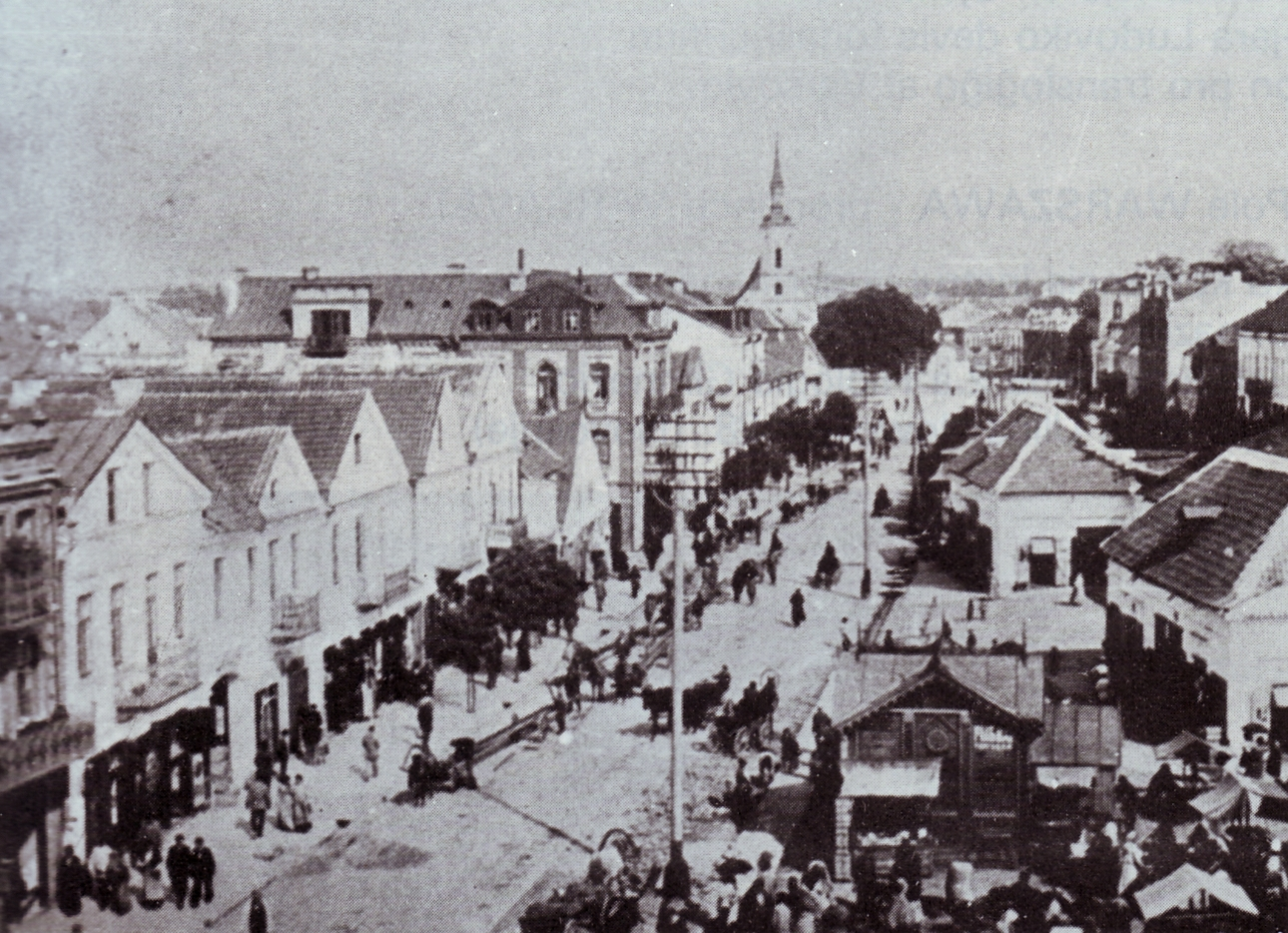 Bialystok (Poland) market place